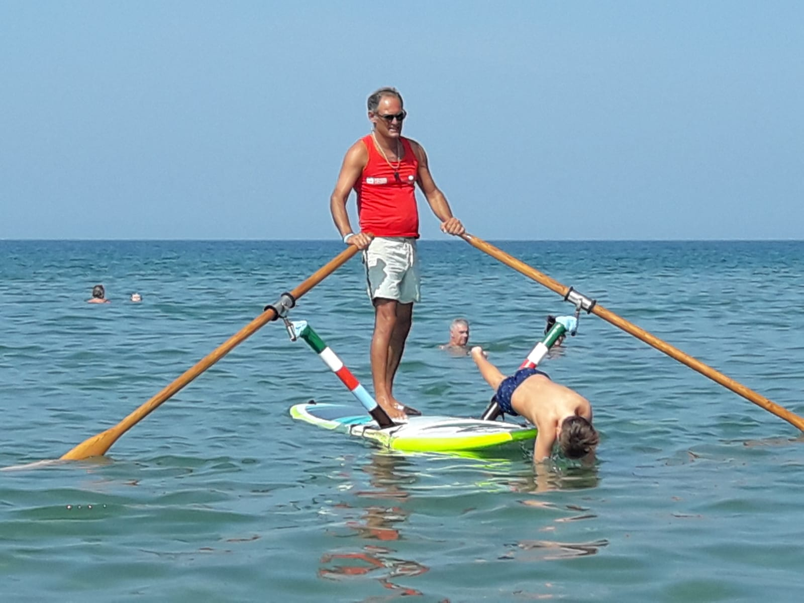 Dragonfly